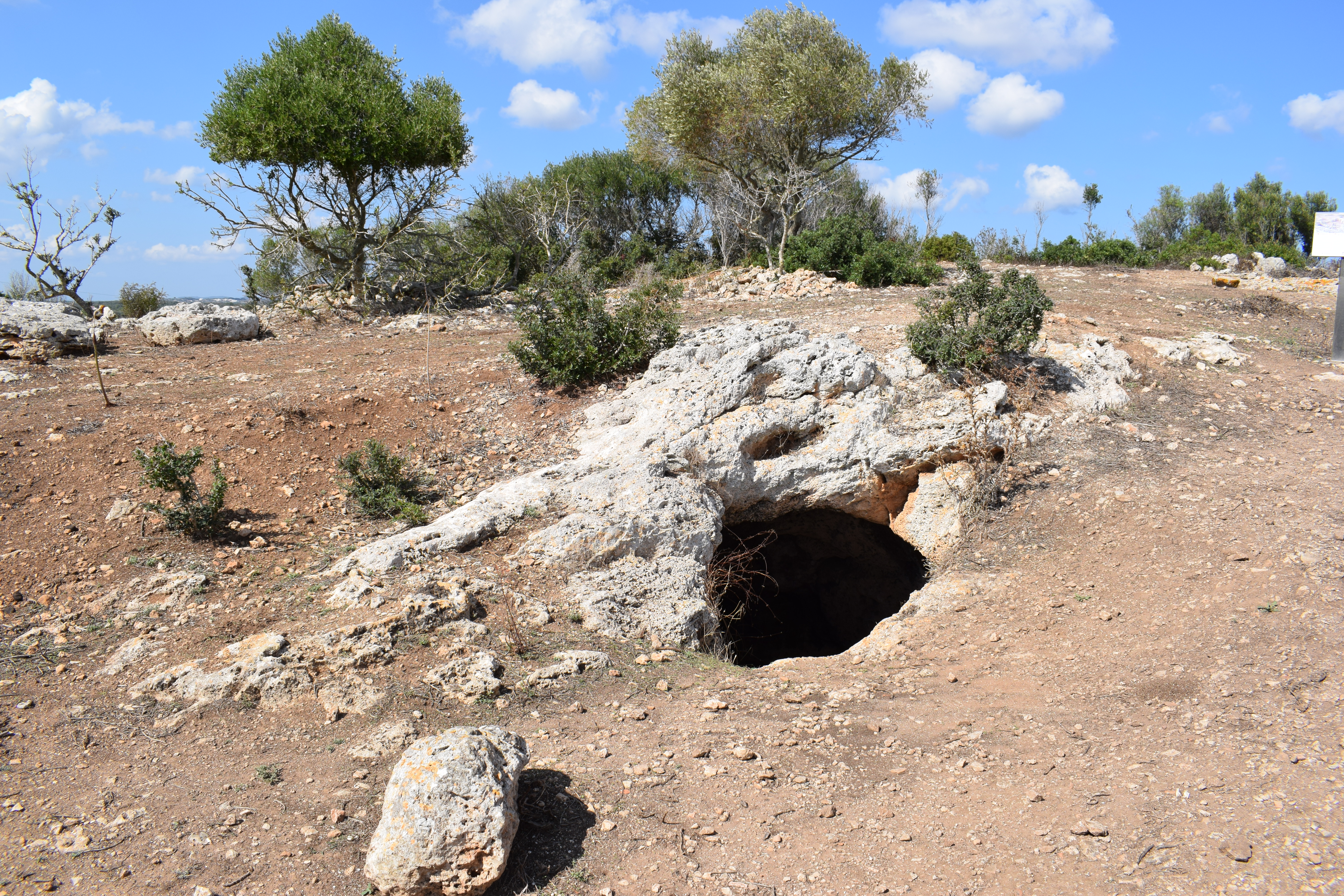 Entrance to the hypogeum at So na Caçana, Alaior, Minorca.